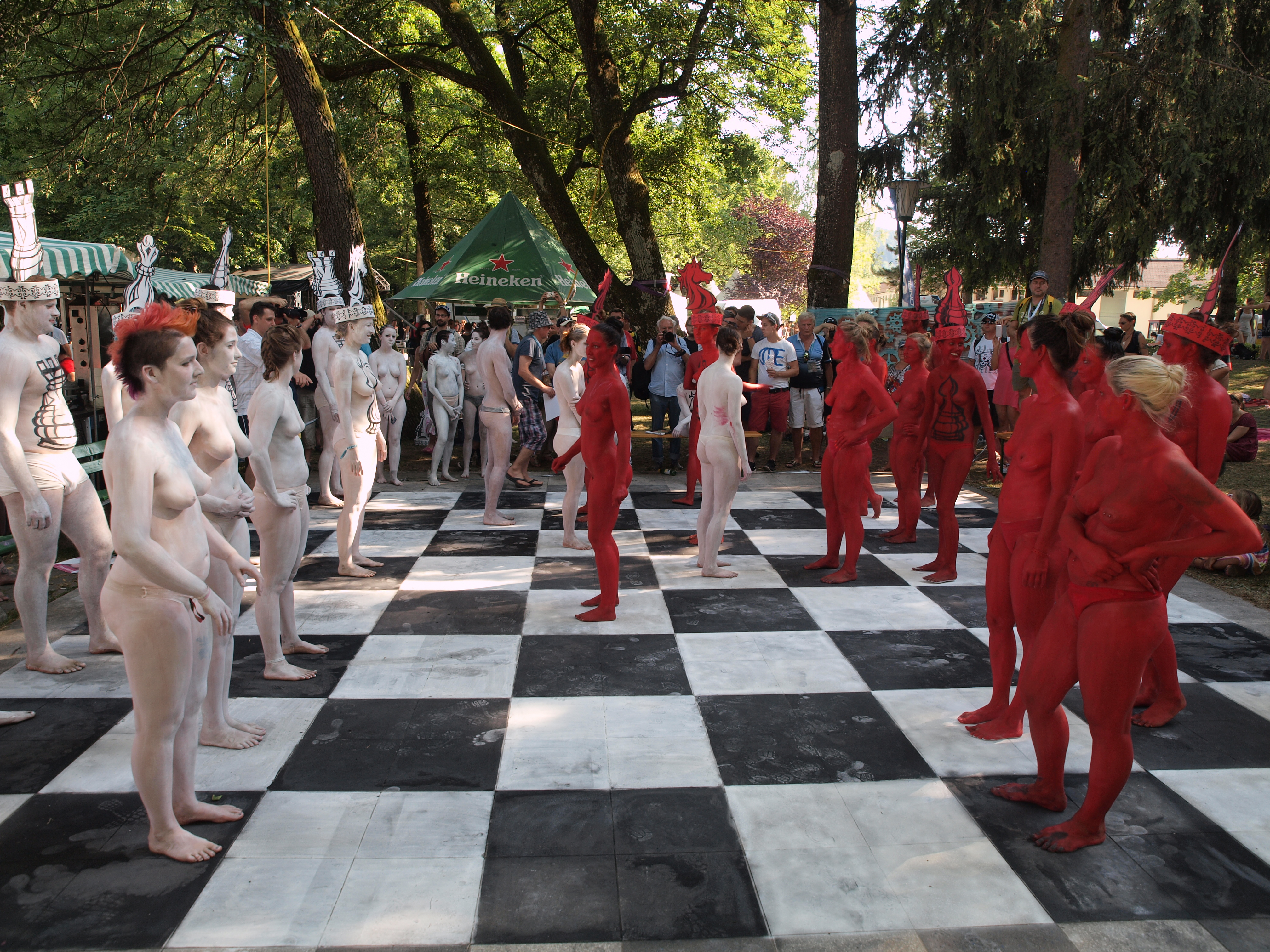 A chess game played between two top-league Austrian chess players, with body painted men and women as chess pieces, performed as a body painting installation at the World Bodypainting Festival 2015 in Pörtschach am Wörthersee, Carinthia, Austria, in July 2015. Idea and artwork by Cheryl Ann Lipstreu from the United States. All models are unpaid volunteers. Photograph taken by me.